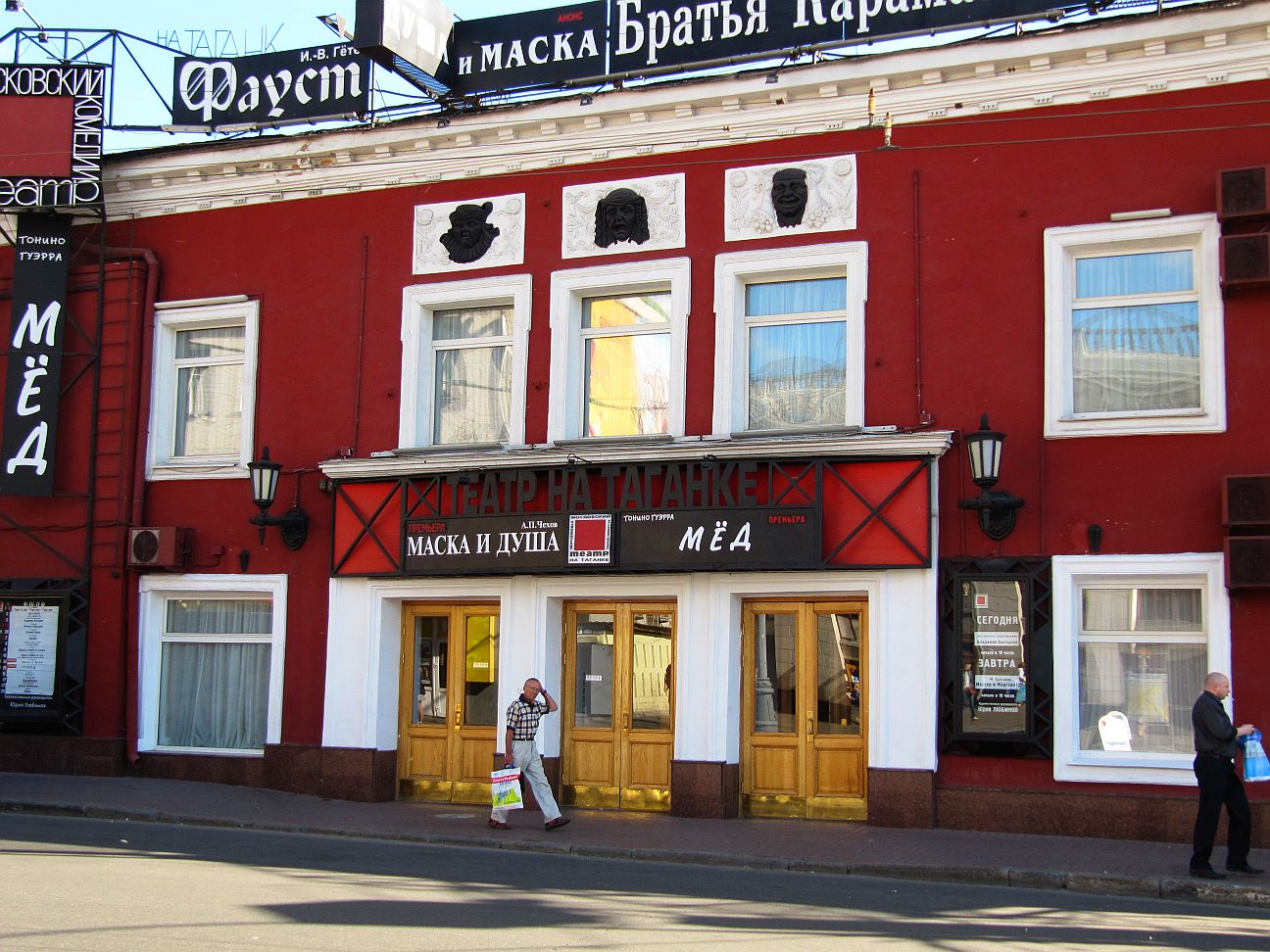 The Taganka Theatre in Moscow. Artistic Director Yuri Lyubimov. It works from 1964. The old building, in which the movie theatre functioned previously. Moscow, Zemlyanoy Val Street, 76/21